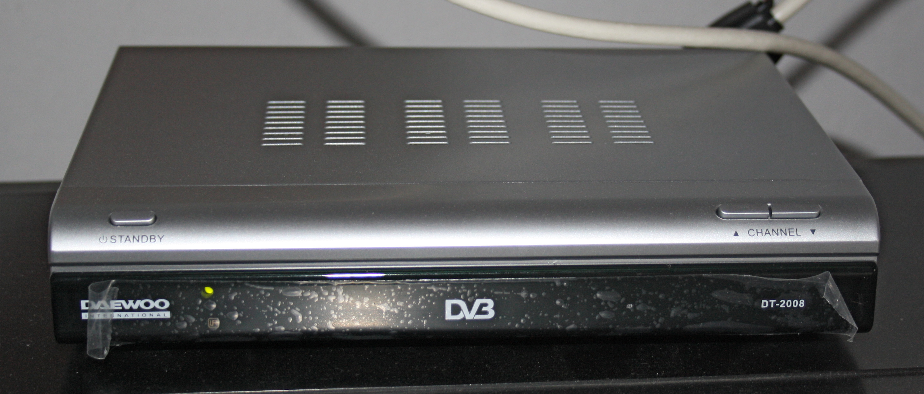 Daewoo DT-2008 DVB Terestrial set-top box.